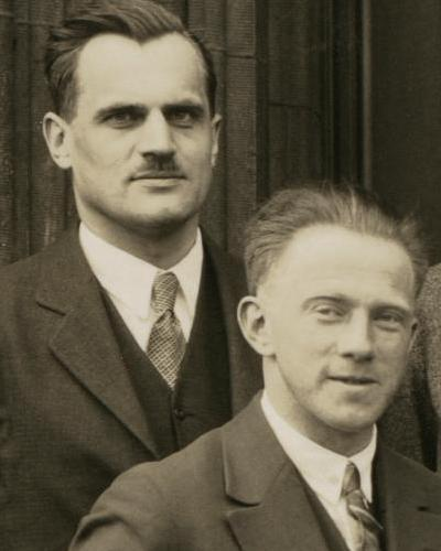 Physicists Arthur Compton and Werner Heisenberg, 1929 at Chicago. Photograph is from the estate of Friedrich Hund and in the possession of Gerhard Hund, donated to Wikipedia in September 2010.